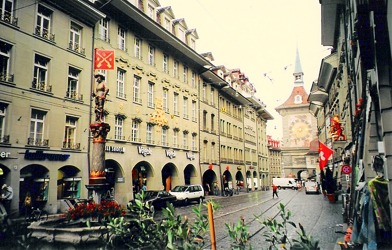 Bern - Fountain on Marktgasse (Schutzenbrunnen - The Marksman)